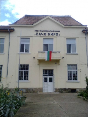 SOU Bacho Kiro Pavlikeni: one of the two buildings of the school.